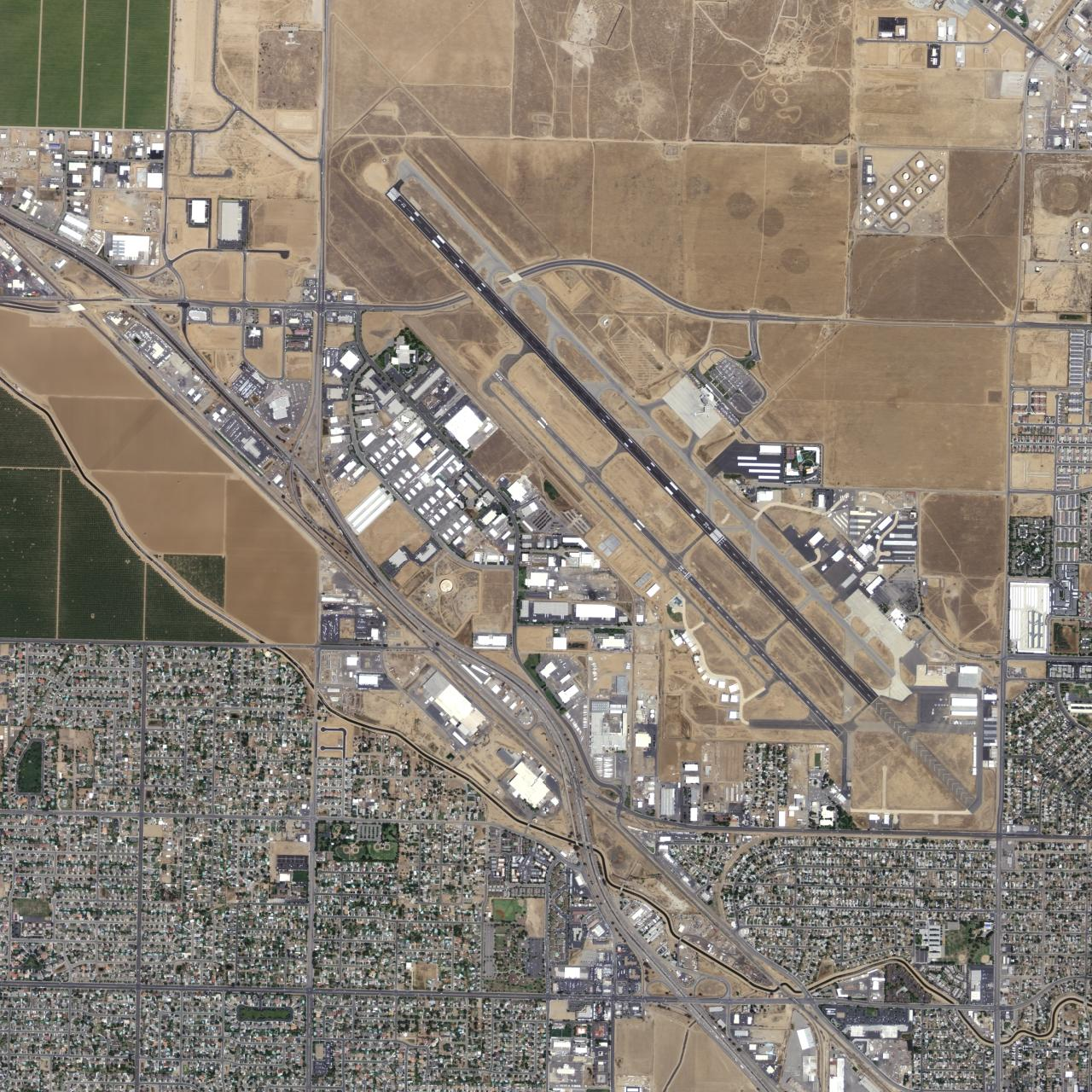 USGS digital orthophoto of Meadows Field Airport in California